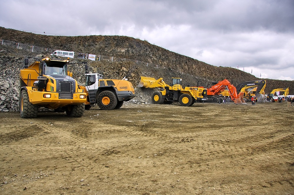 Steinexpo 2008